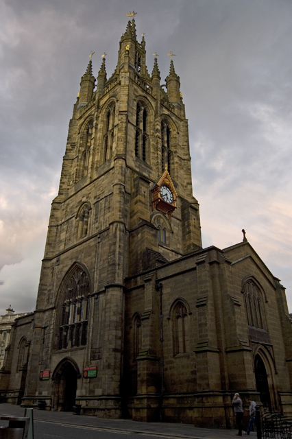 Newcastle Cathedral